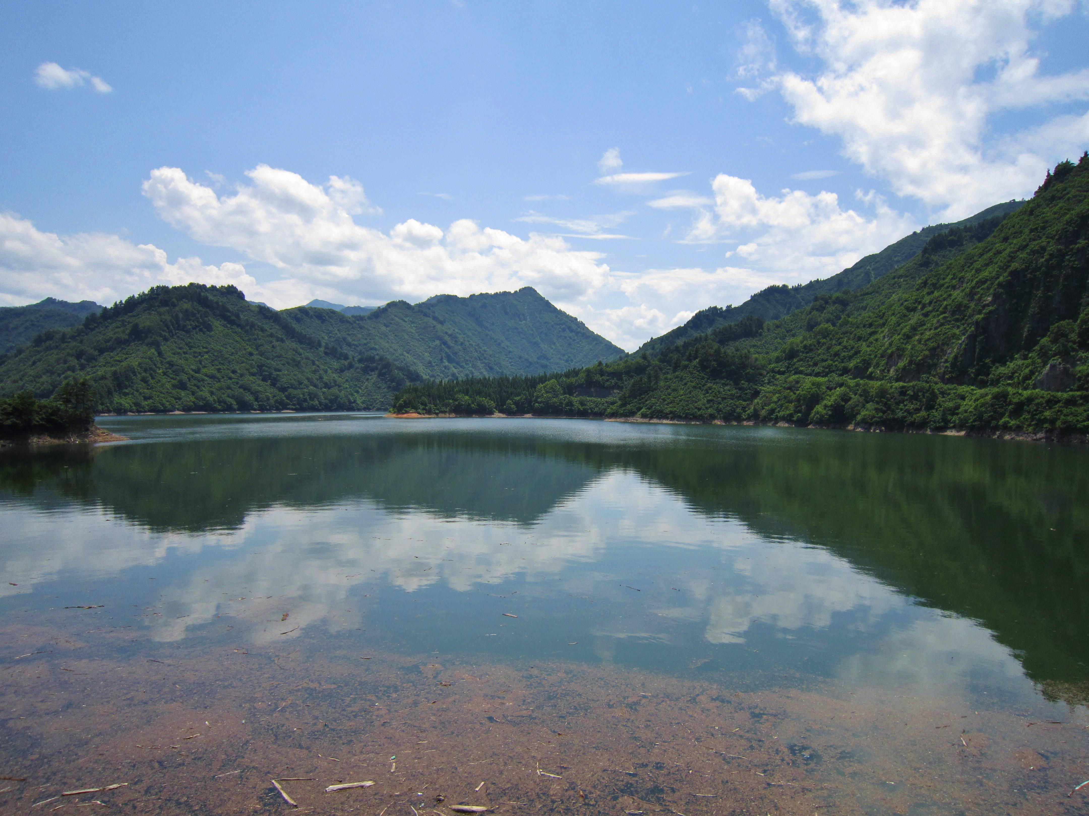 Kuromatagawa I Dam.